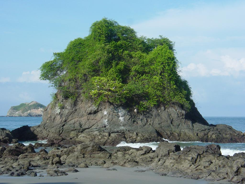 Author: Jacob Norlund Taken in Manuel Antonio National Park, in Costa Rica on April 6, 2005. Resized from 2048 x 1536 prior to uploading.